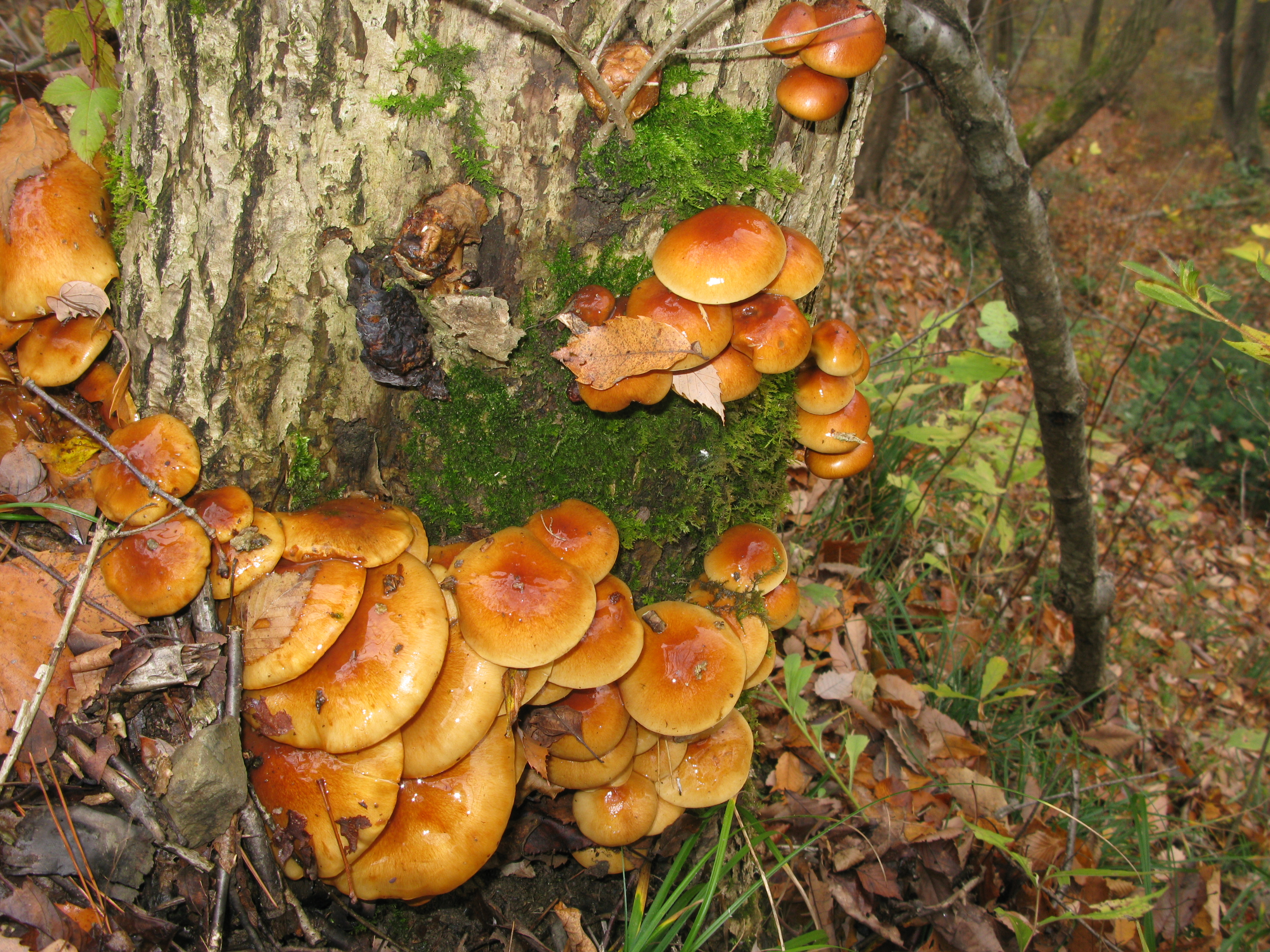 Pholiota microspora, Aizu area, Fukushima pref., Japan